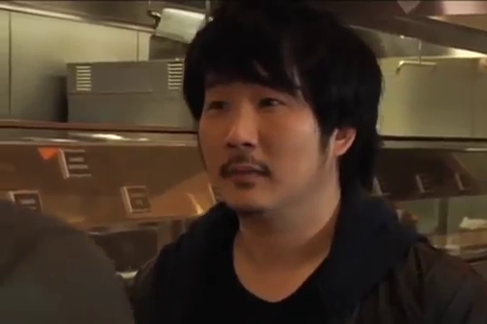 Bobby Lee in a scene of "Pauly Shore's Vegas Is My Oyster" comedy special. It was shot and released in 2011.